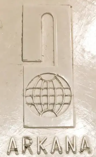 Logo of British furniture manufacturer Arkana Limited, Bath